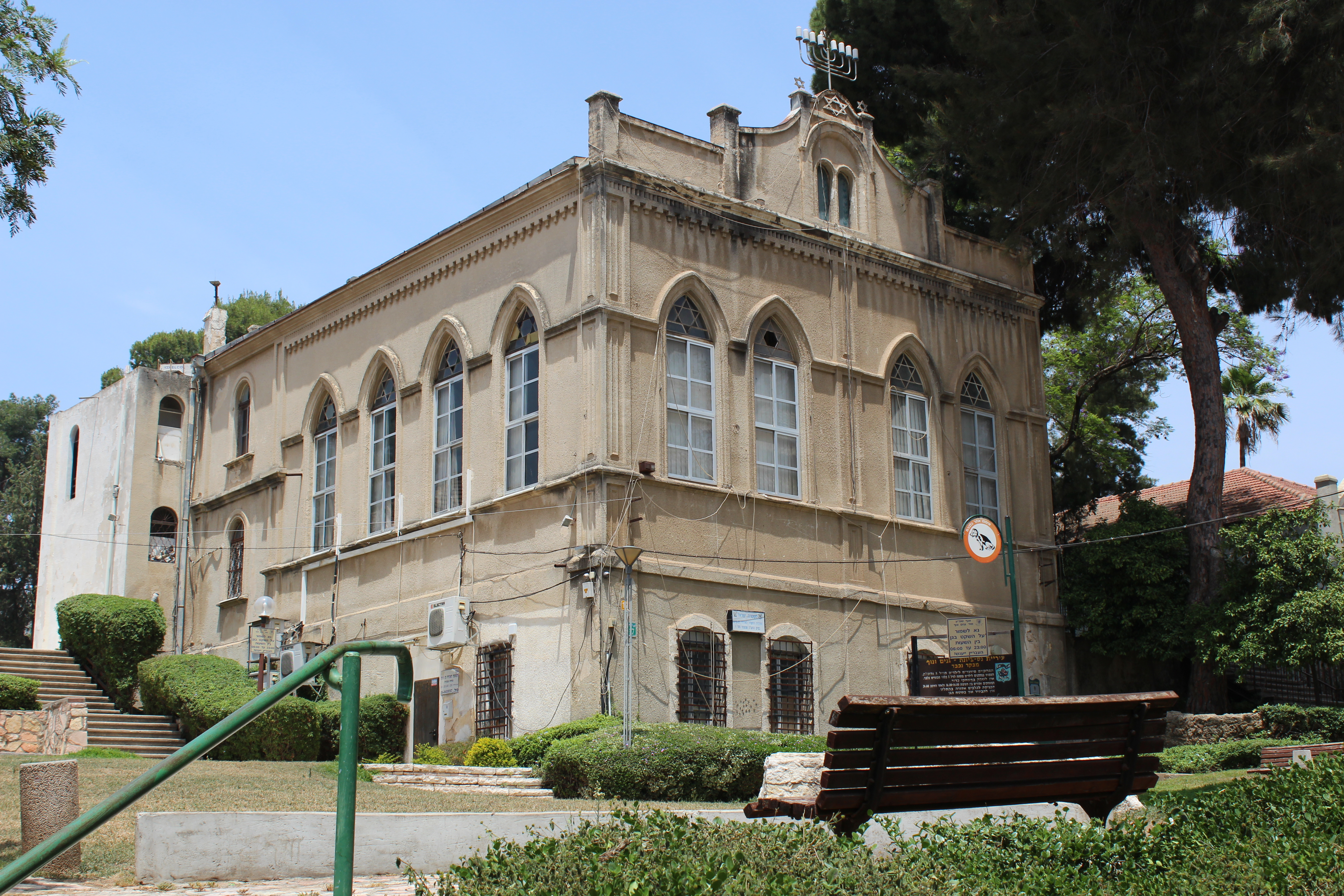 Ness Ziona Synagogue, Ness Ziona, Israel This image was taken as part of the Elef Millim project trip to Nachalat Reuven, in Ness Ziona which was held on Friday, 24th May 2013. To view all images uploaded as part of the Elef Millim Project